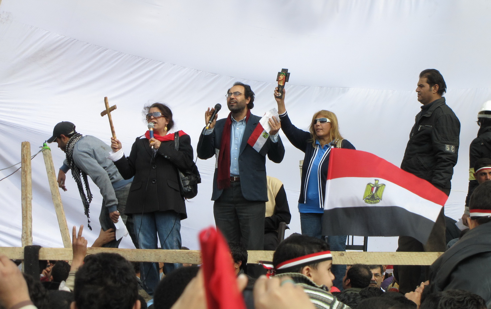 Egyptian Copts pray in Tahrir Square during the 2011 Egyptian protests.